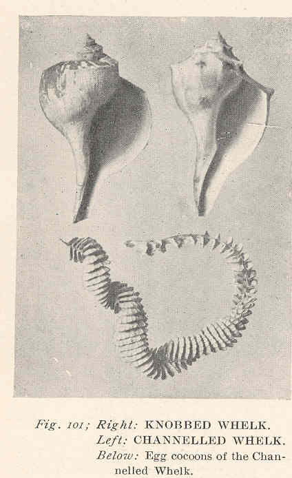 Knobbed Whelk (Right); Channelled Whelk (Left); Egg cocoons of the chanelled whelk (Below) Subject: Buccinidae, Whelks, Fulgur, Sycotypus Tag: Mollusks